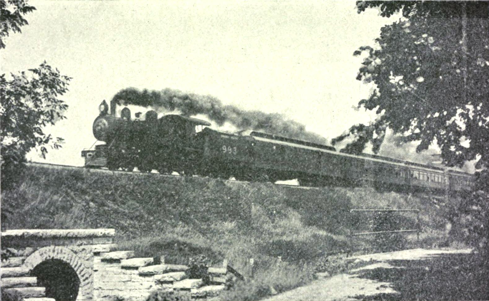 View of the International Limited on the Grand Trunk Railway system.